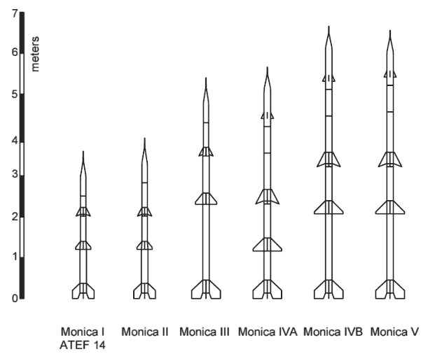 Monica rocket family scheme.